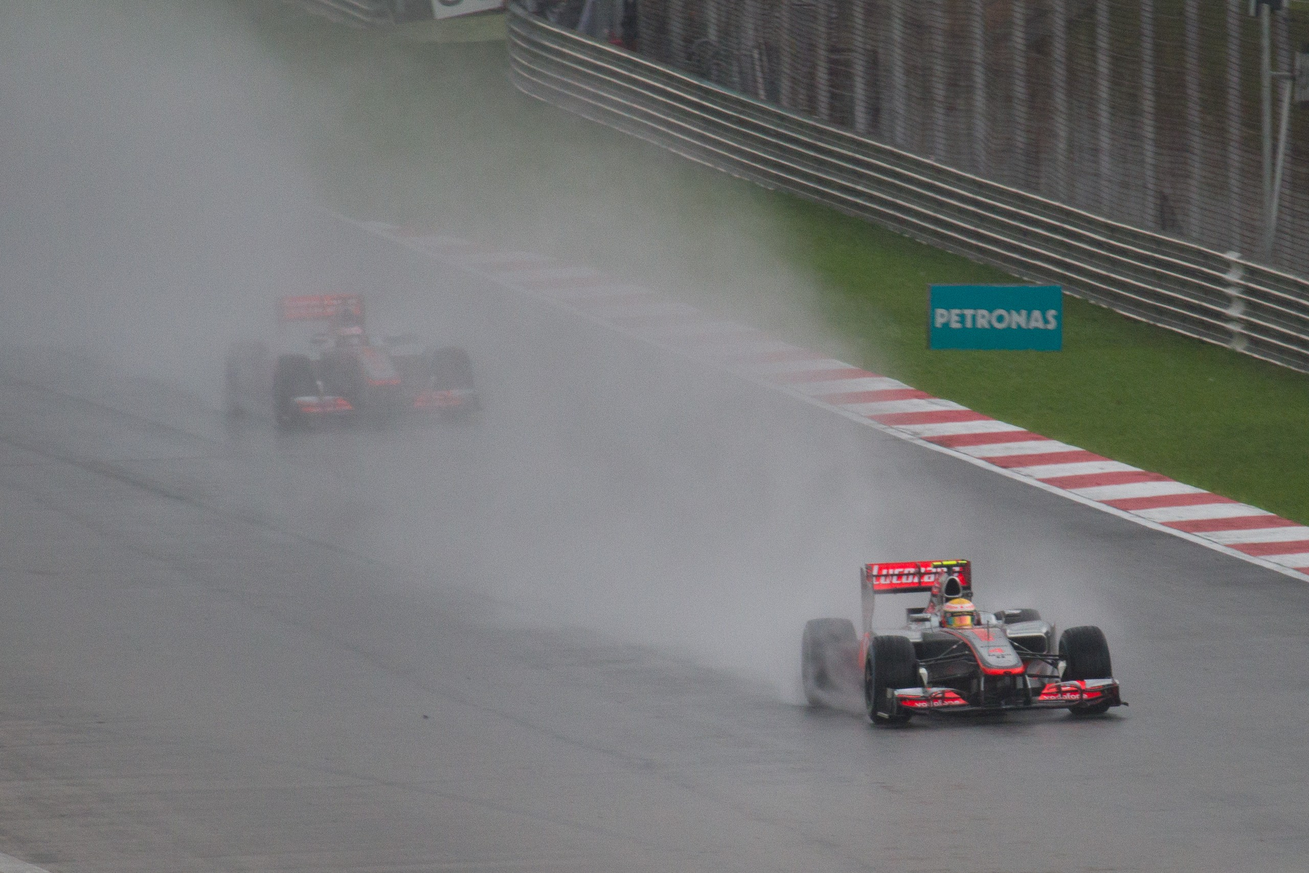 Formula One 2012 Rd.2 Malaysian GP: Lewis Hamilton (McLaren) leads early part of the race.